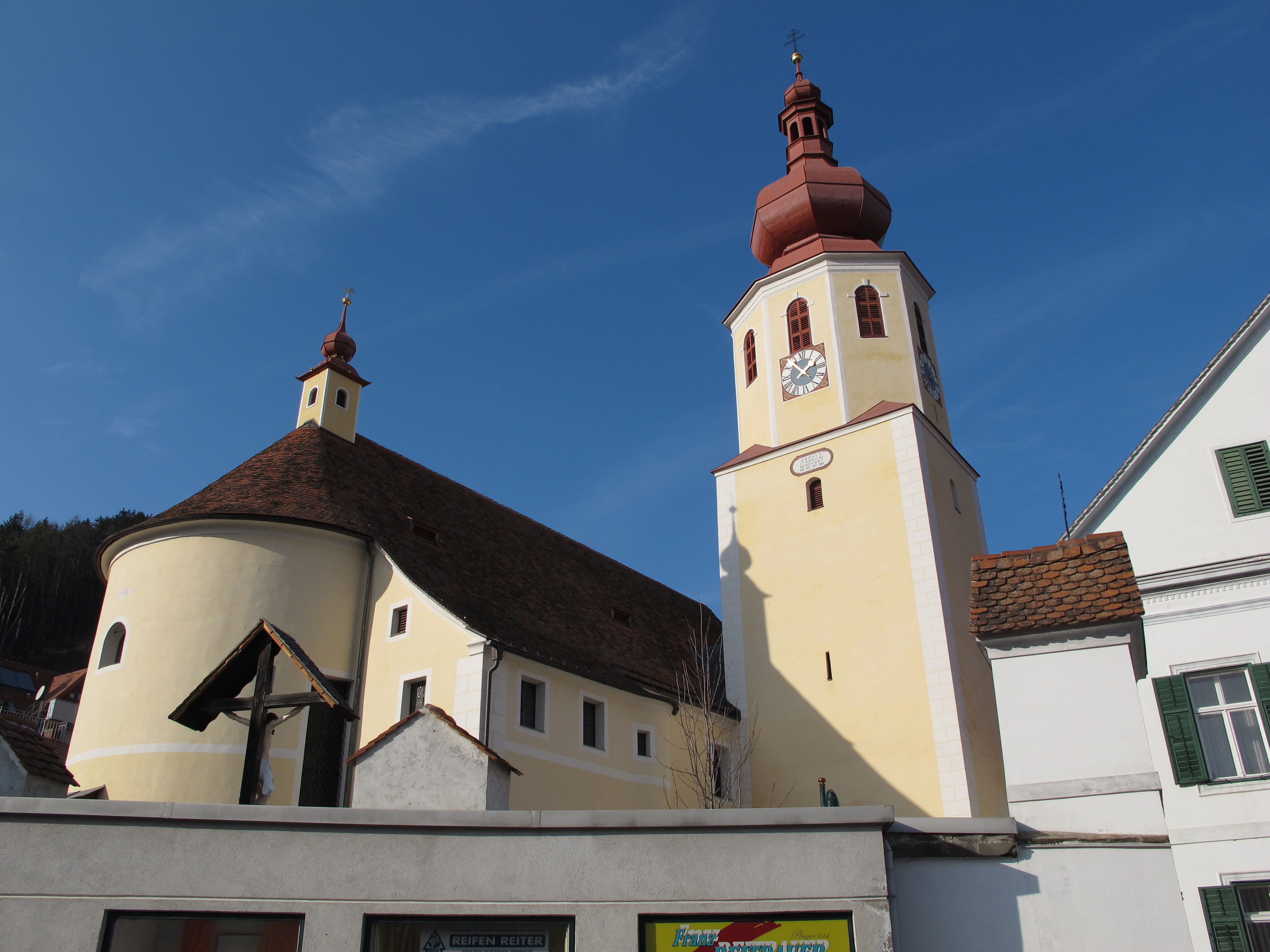 Pfarrkirche Anger in Styria